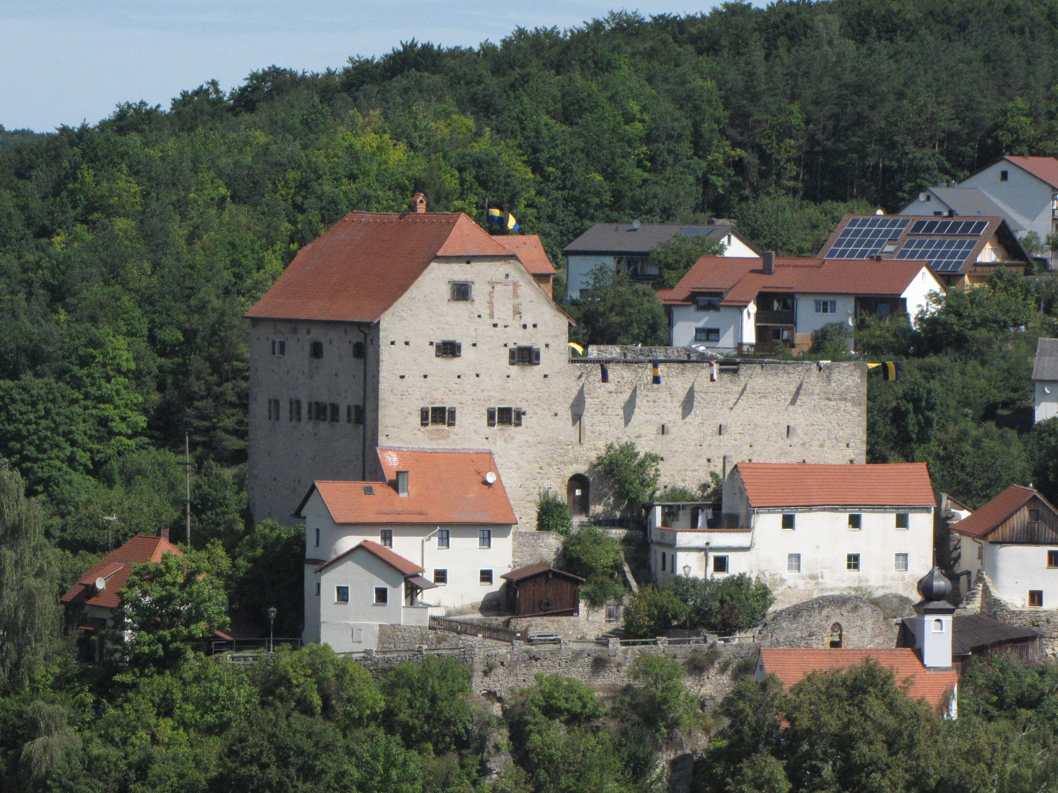 Castle Wolfsegg, Bavaria